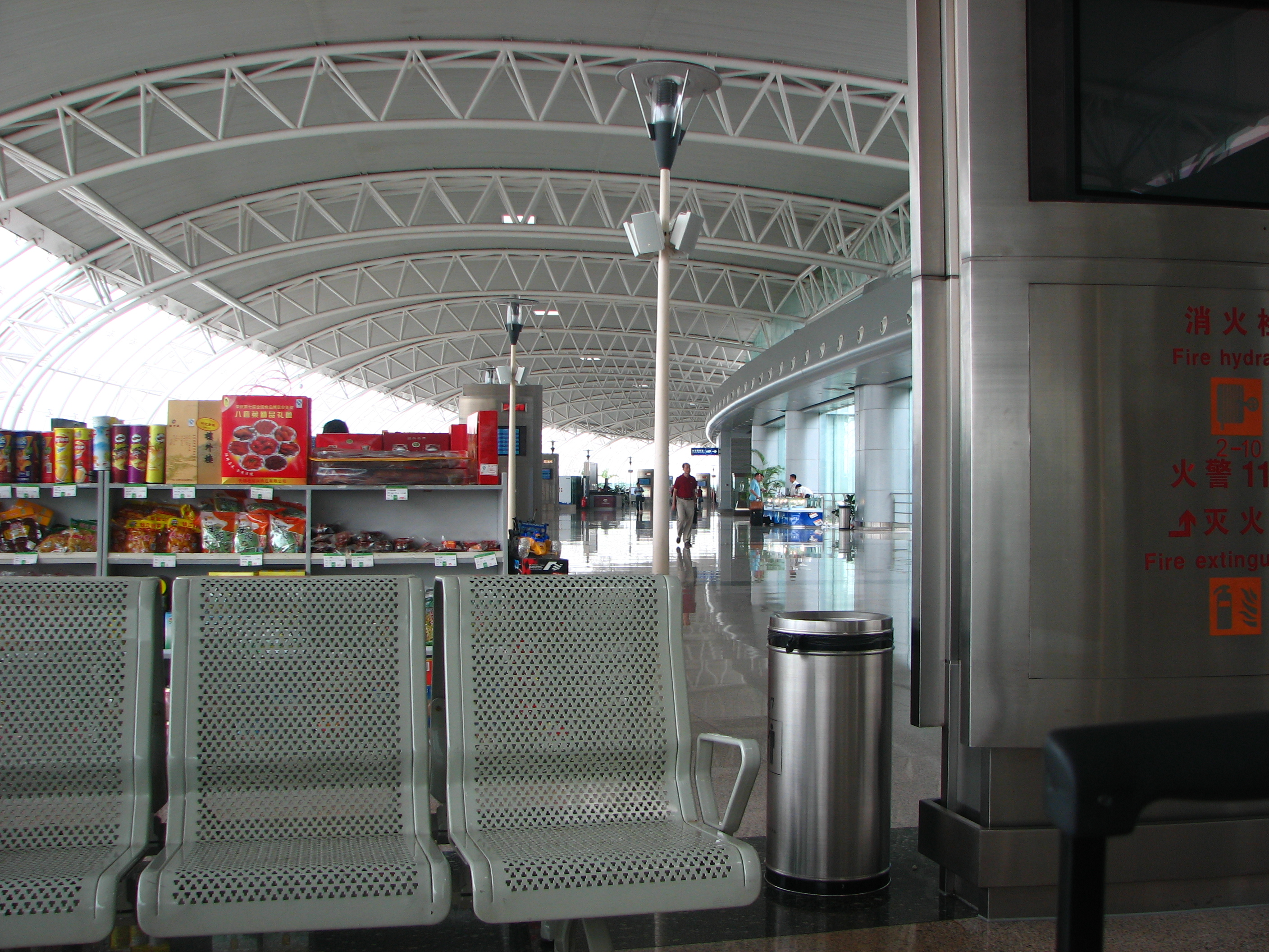 View of Ningbo Lishe International Airport